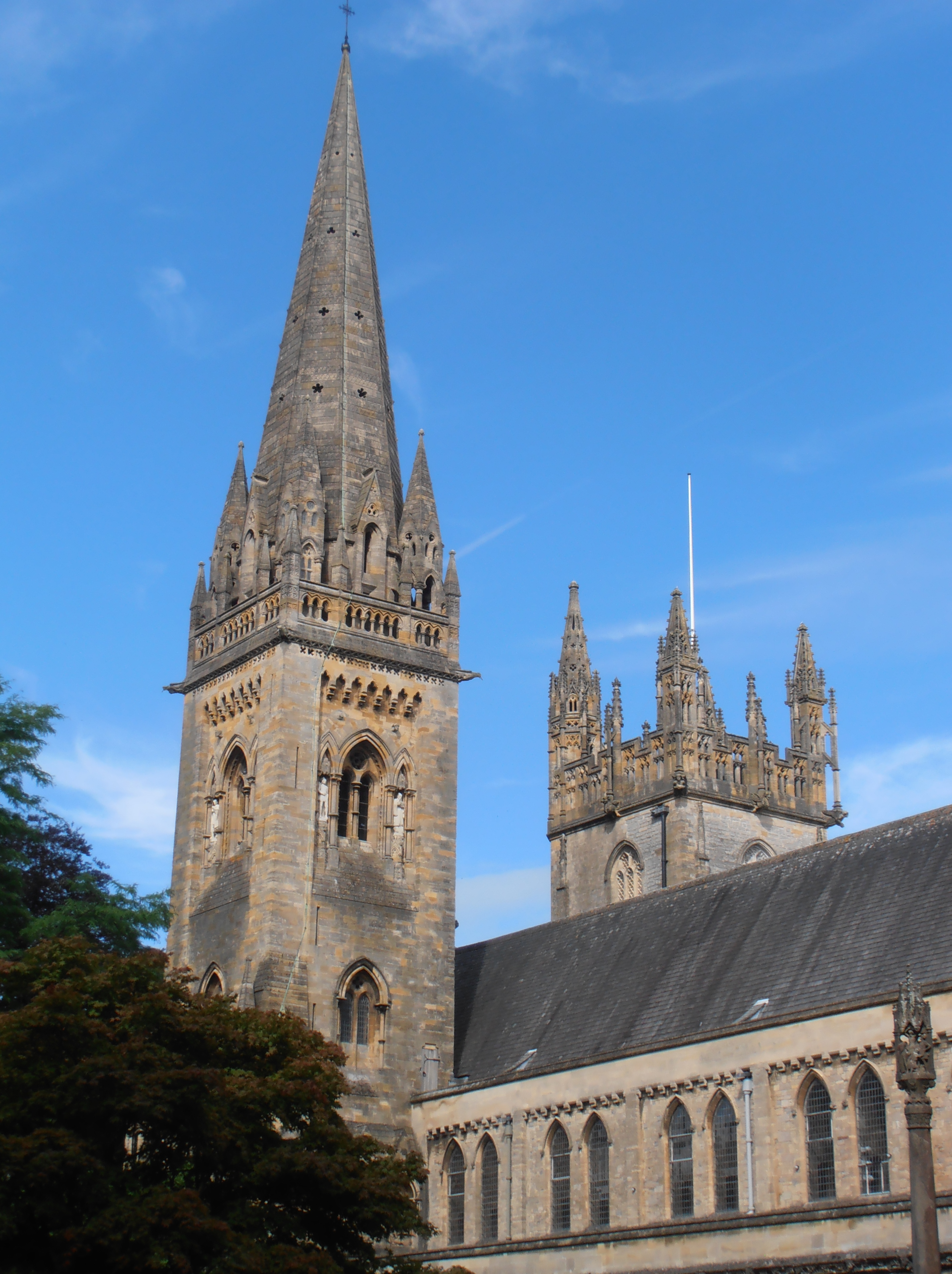 Llandaff Cathedral